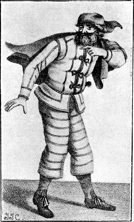 Turlupin, a French actor.